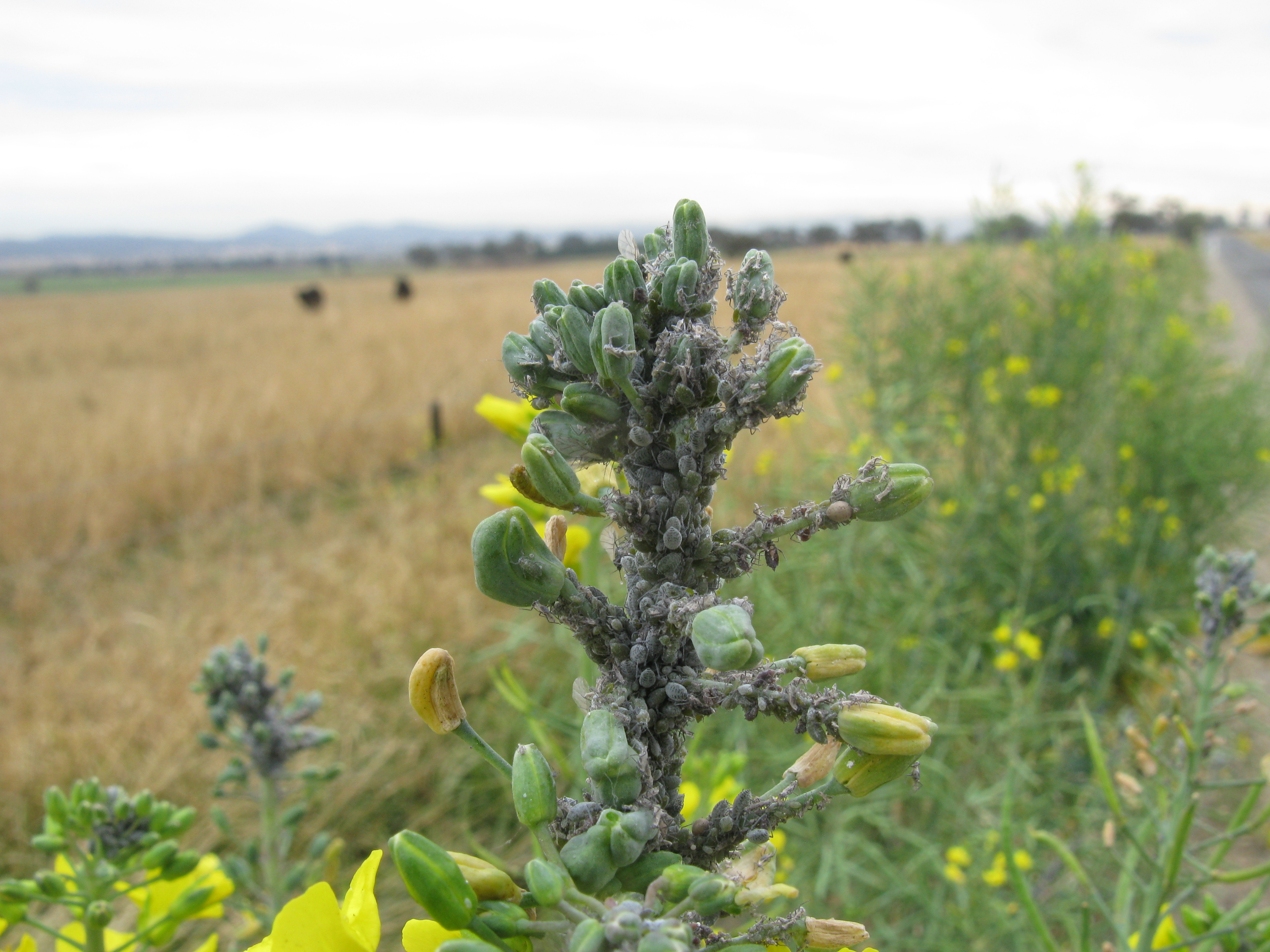 Canola growing in the Merriwa to Denman region in crop and by roadside. Flowerheads infested with aphids. Introduced, cool-season, annual or biennial herb to 1.5 m tall, usually with a strong taproot. Stems are erect and scarcely branched. Leaves are grey-green. Lower leaves are stalked, lyrate-pinnatifid and 5–20 cm long; nerves sparingly bristly. Upper leaves are stem-clasping, sessile and oblong-lanceolate. Flowerheads are racemes. Flowers are bright yellow, with 4 petals and 6 stamens. Fruit are siliquas, obliquely erect, 5–10 cm long, obscurely 4-angled, with a 5–20 mm long, tapering beak. Flowering is from winter to spring.